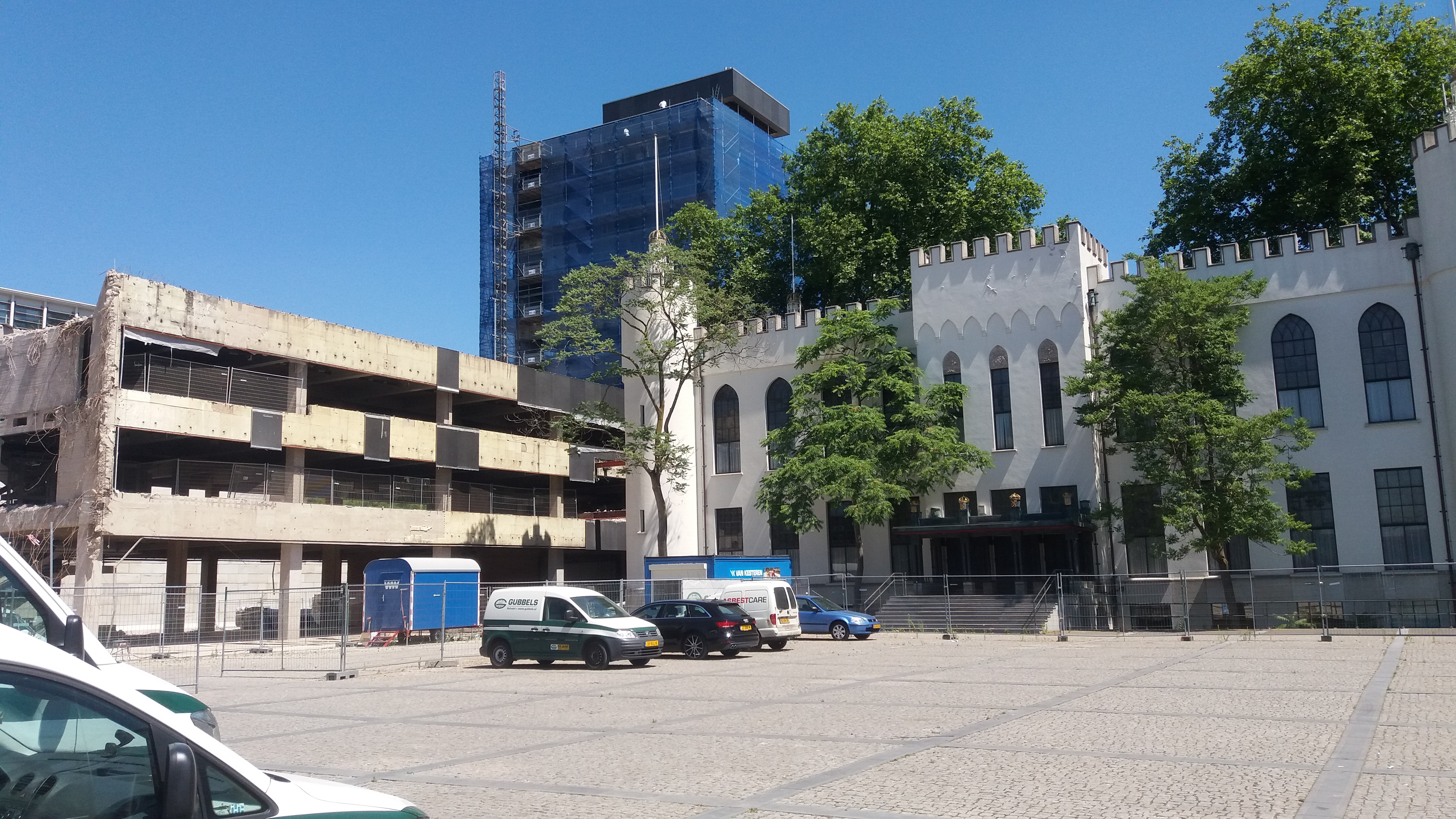 View of the west side of the City Hall of Tilburg with the stripped Stadskantoor 1, photo taken on June 29, 2018.